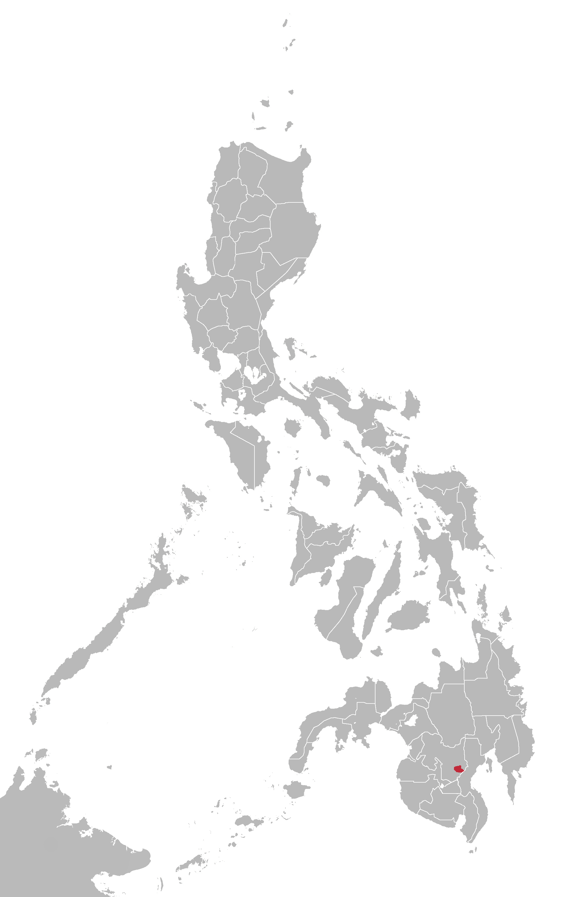 Tagabawa language map based on Ethnologue maps